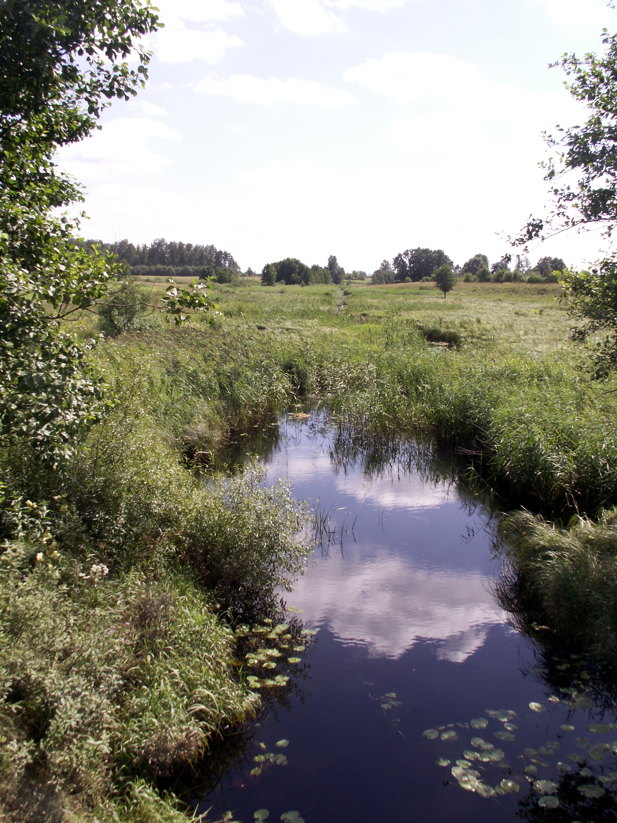 Šiaušė river in Šiauliai district, Lithuania